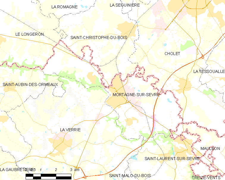 Map of French municipality Mortagne-sur-Sèvre